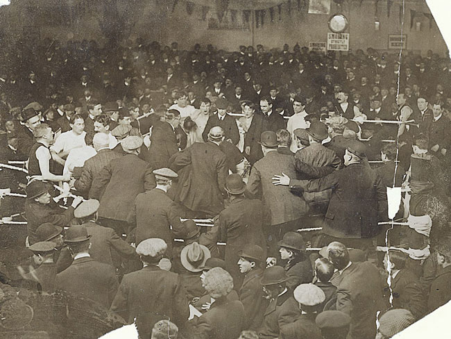 The chaotic scene at the end of the Jim Driscoll vs Freddie Welsh match hosted at the American Skating Ring in Cardiff, Wales, 20 December 1910. The bout was for the European Lightweight belt, which saw Driscoll disqualified for headbutting Welsh in the tenth.